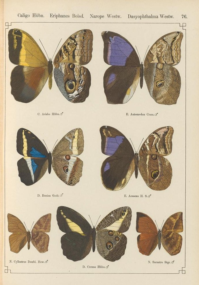 Langhans, H. W., Röber, J., Schatz, E., Staudinger, O., 1888 Exotische schmetterlinge von dr. O. Staudinger und dr. E. Schatz. V. G. Löwensohn, Fürth Caligo arisbe Hübner, [1822] Eryphanis automedon (Cramer, 1775) Dasyophthalma rusina(Godart, [1824]) Eryphanis aesacus (Herrich-Schäffer, 1850) Narope cyllastros (Doubleday, 1849) Dasyophthalma creusa(Hübner, [1821])[ Narope sarastro Staudinger synonym for Narope anartes Hewitson, 1874